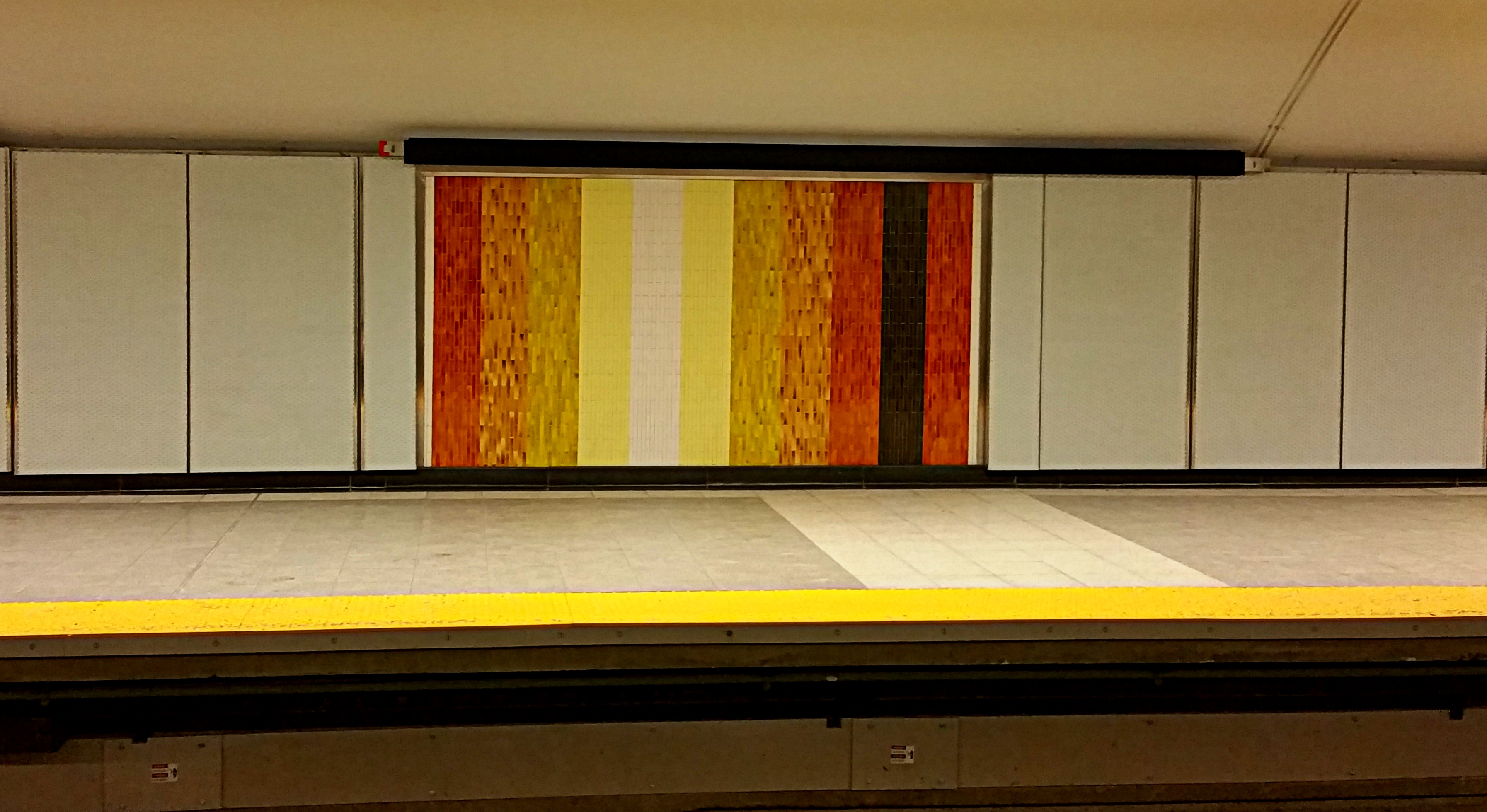 Murales, Claude Vermette, Berri-UQAM Station, Montréal Metro